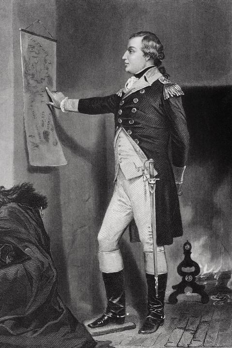 Full length engraving of American Revolutionary War General Richard Montgomery.